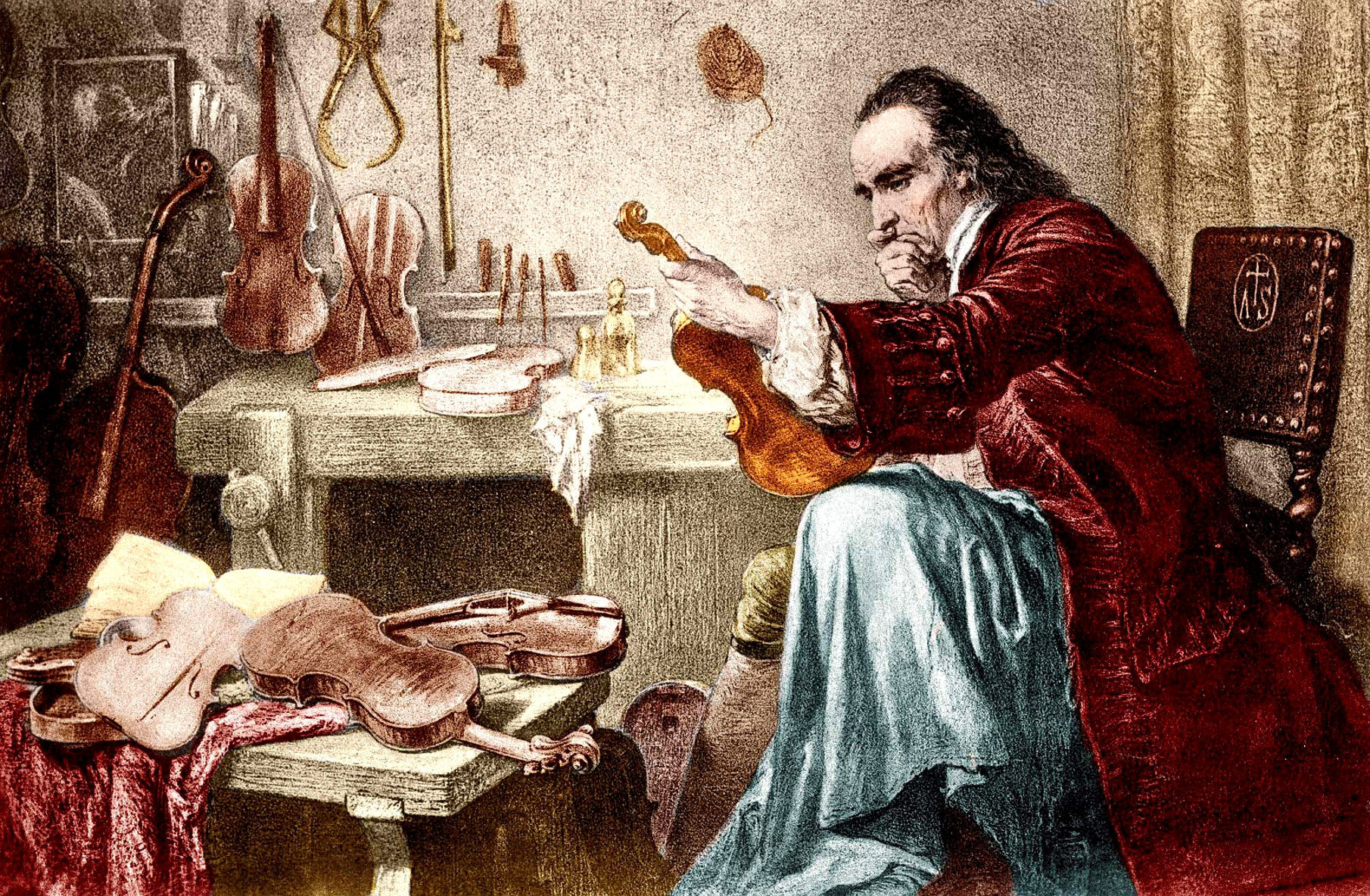 A romanticized print of Antonio Stradivari examining an instrument